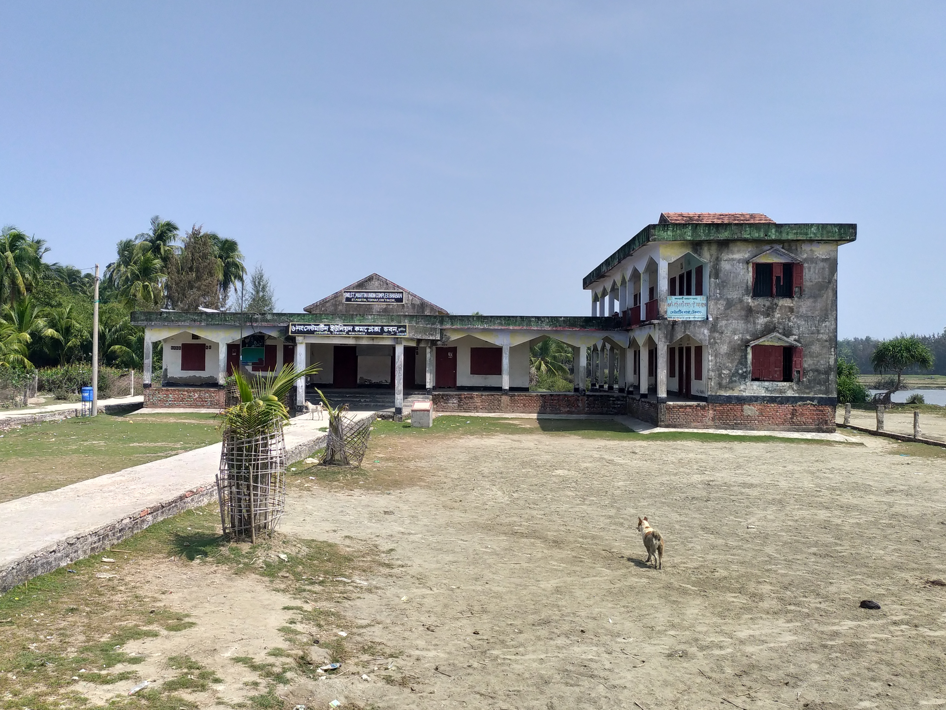 Union Council office of St. Martin's Island